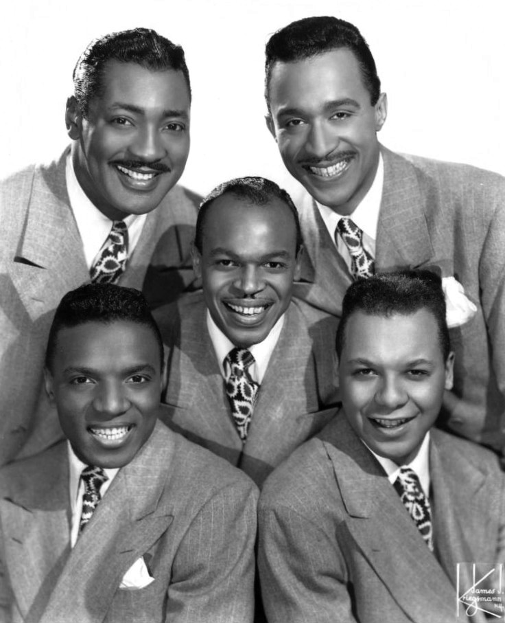 Publicity photo of the vocal group the Delta Rhythm Boys for their appearance at the annual Puyallup (Washington) Daffodil Festival Flower Show.